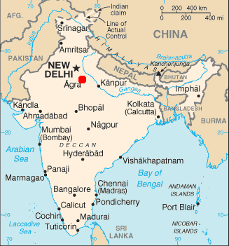 Map of India. Position of Agra highlighted. Originated from Public Domain.